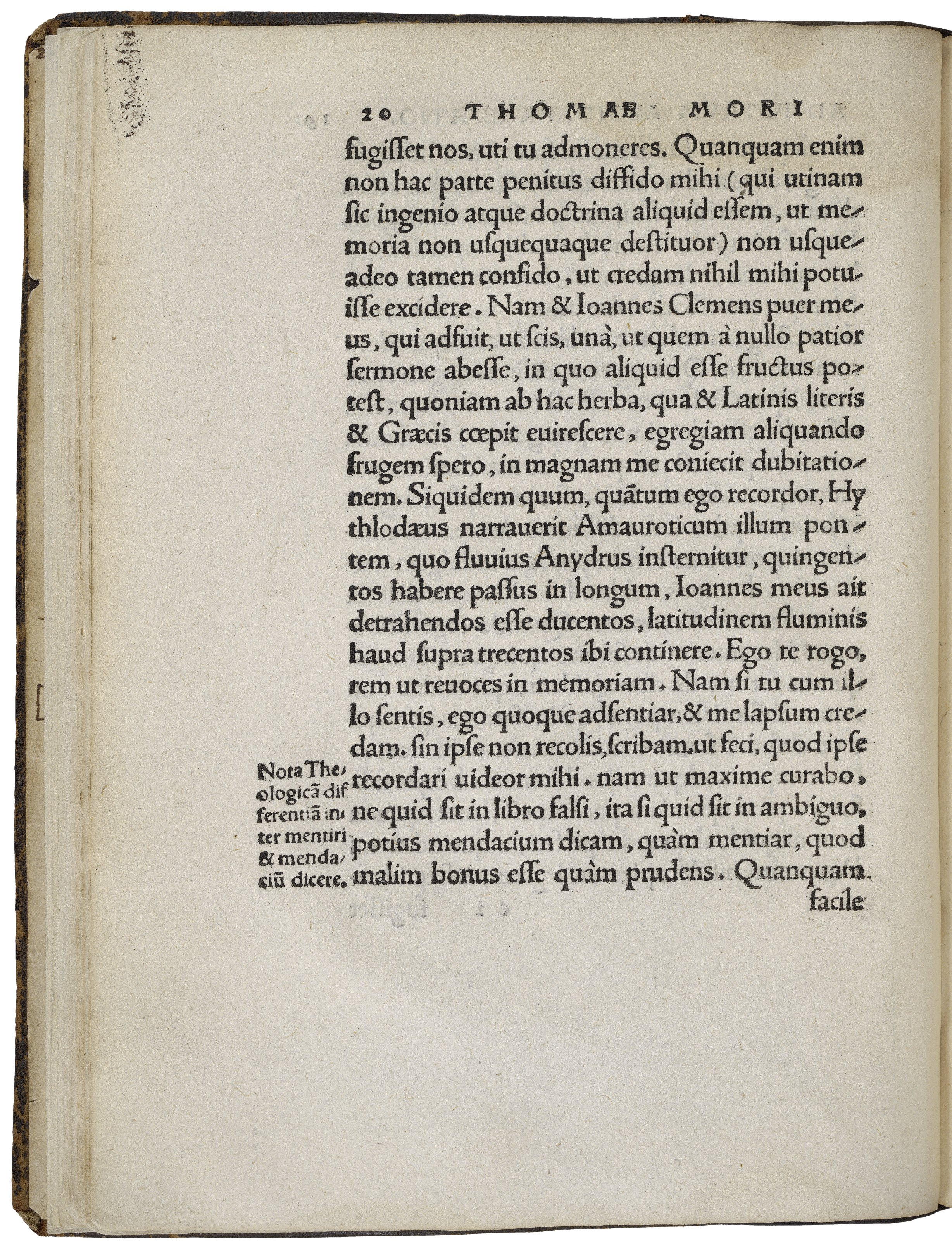 This the page 20 of Thomas More's Utopia